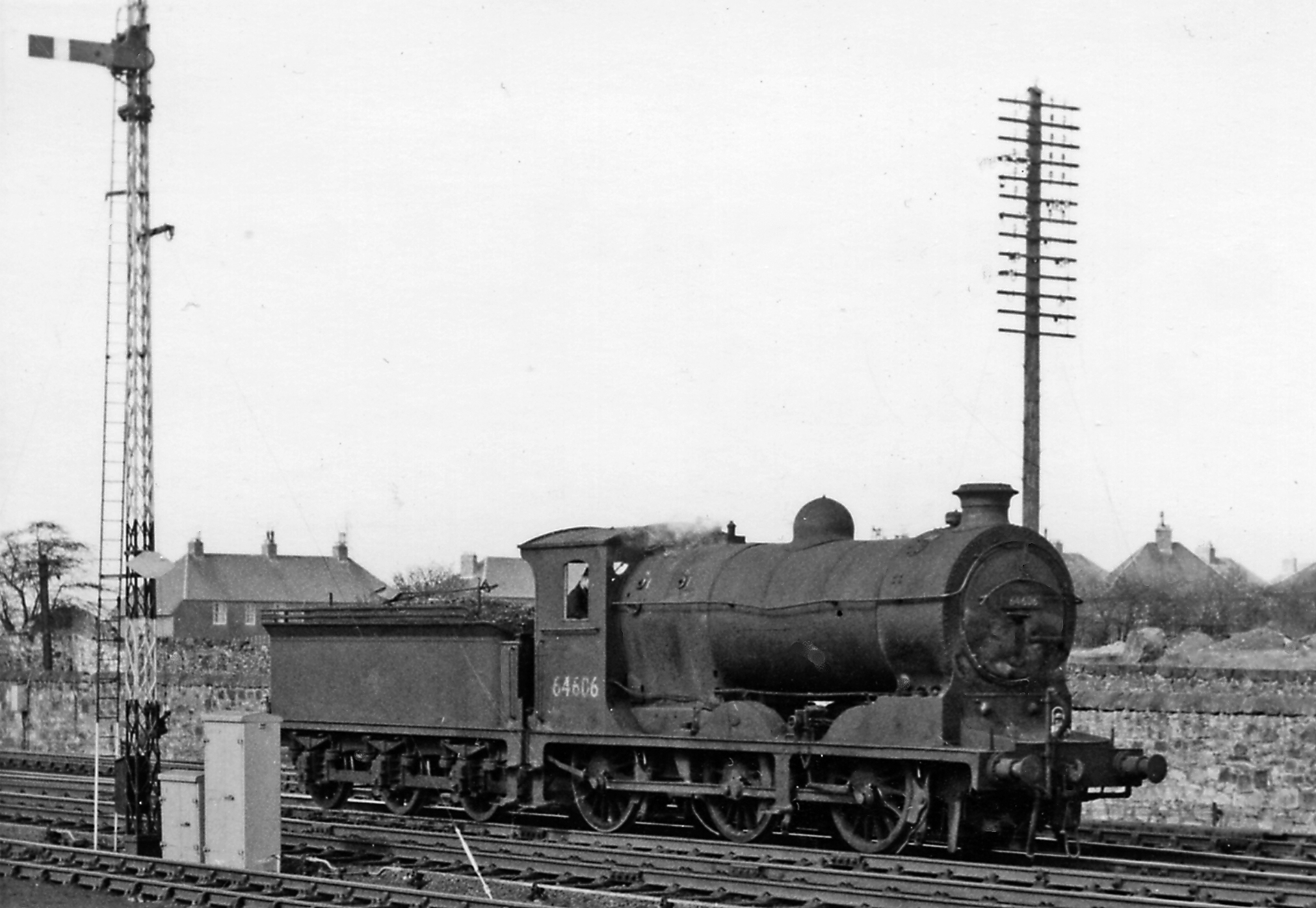 Ex-NBR 0-6-0 on Dunfermline line near Thornton Junction. Thornton Junction station is to the right, Dunfermline to the left: ex-NBR Stirling via Alloa and Forth Bridge etc. via Dunfermline (Lower) line. The ex-NBR Reid class S (LNER J37) locomotive here was built in 12/19 as No. 300 (LNER No. 9300, 1946 No. 4606) and survived until 7/66.